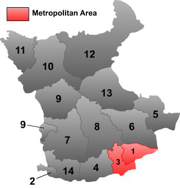 Map of Xianyang in SHaanxi province.